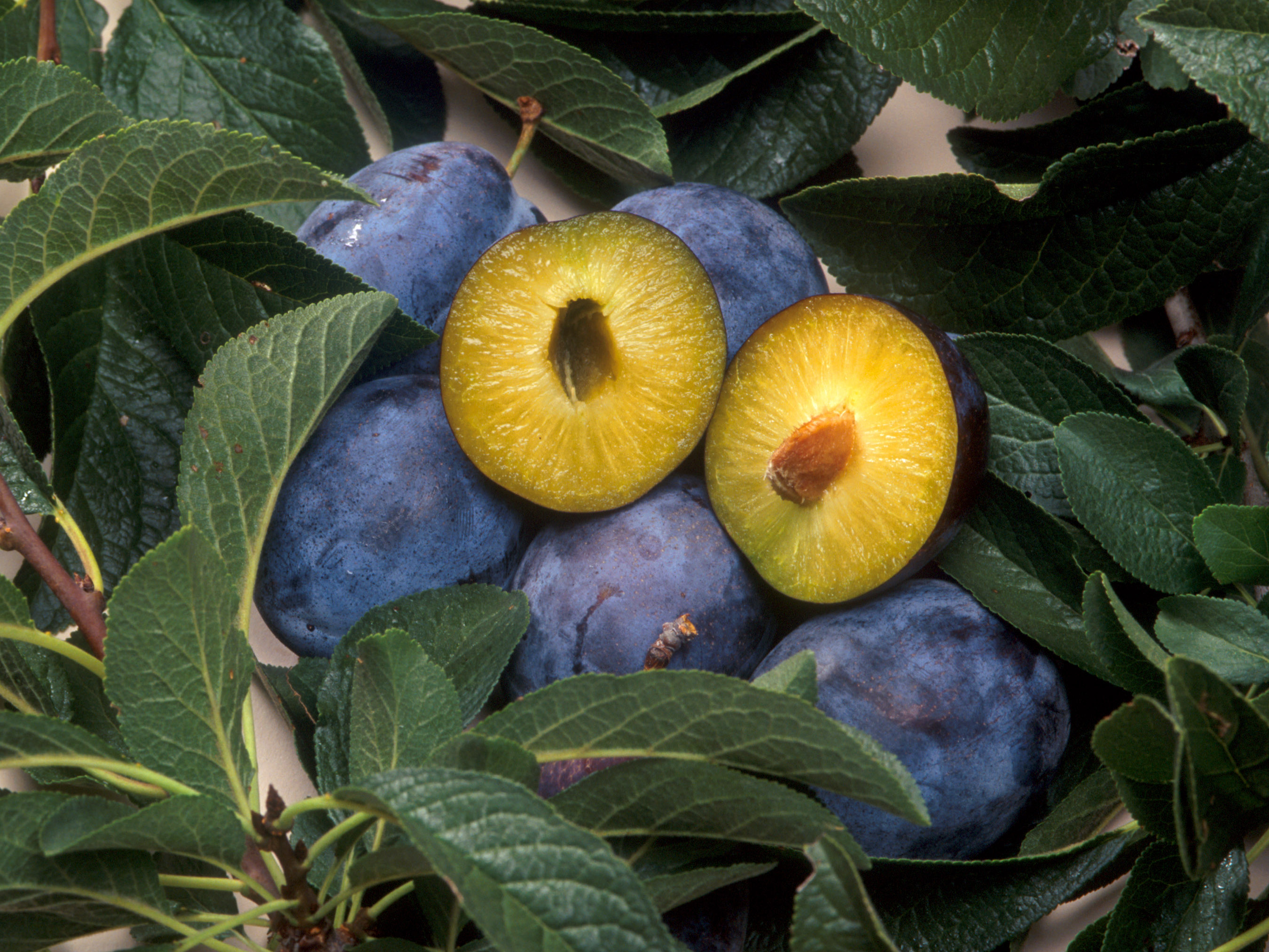 Original caption: "These transgenic plums called C5 contain a gene that makes them highly resistant to plum pox virus."